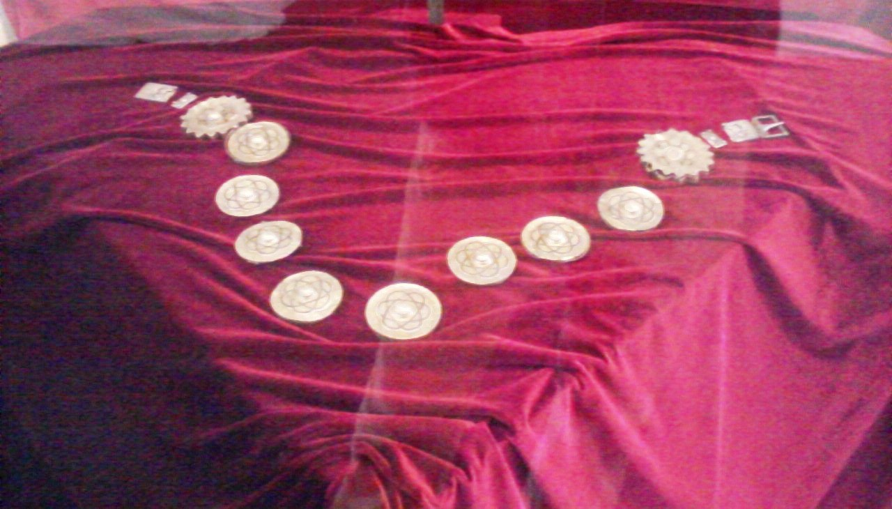 Set of plates of the belt of Vytautas the Great found in Litva treasure. Exposition in Belarusian National History and Culture Museum